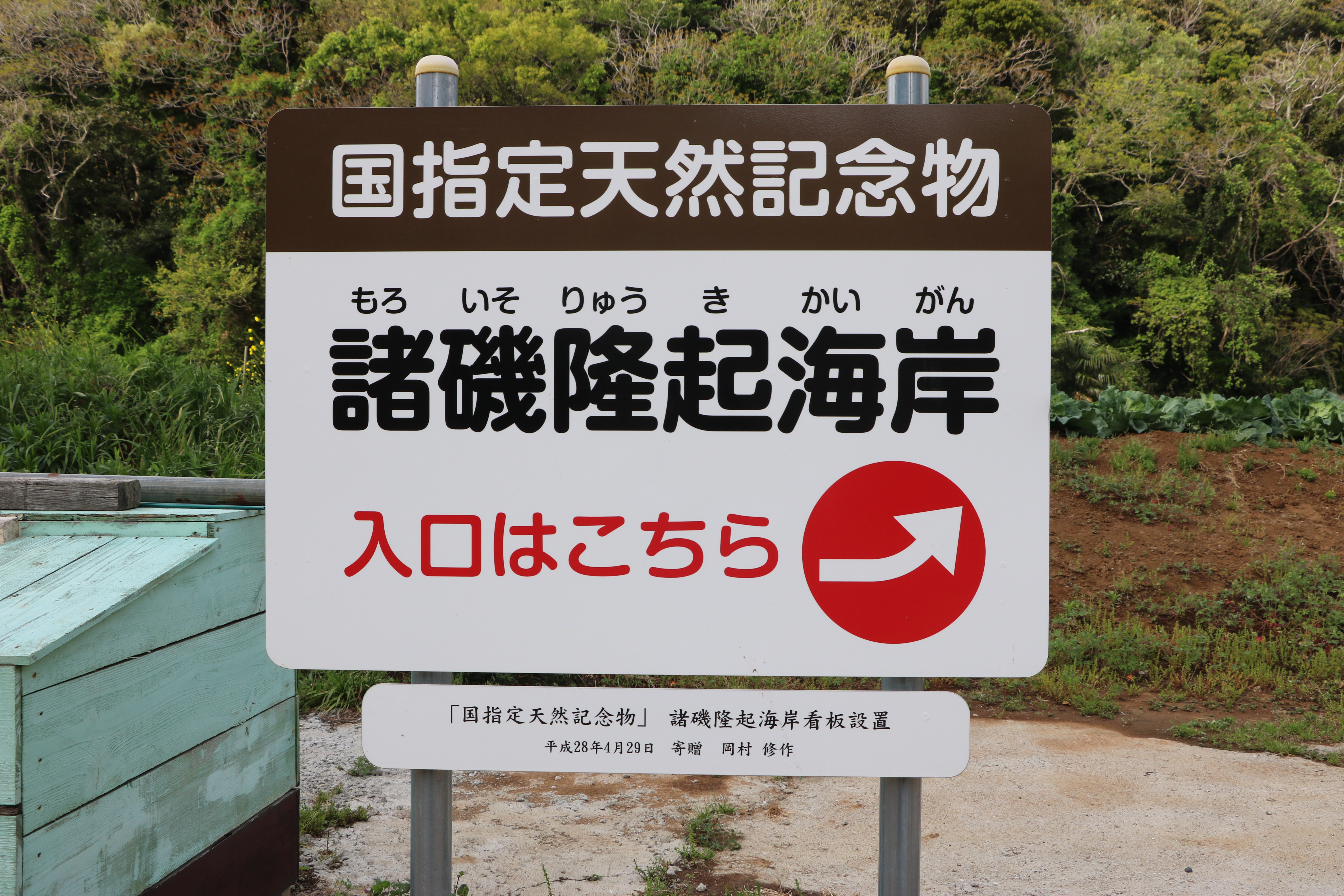 Moroiso uplift coast strata guide plate of the entrance